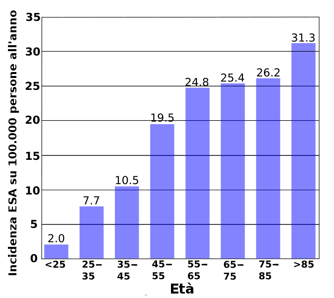 bar graph of incidence of subarachnoid hemorrhage by age range